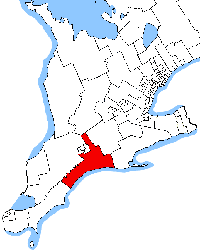 Map of the Elgin—Middlesex—London electoral district. Based on Earl Andrew's maps, created by SimonP.